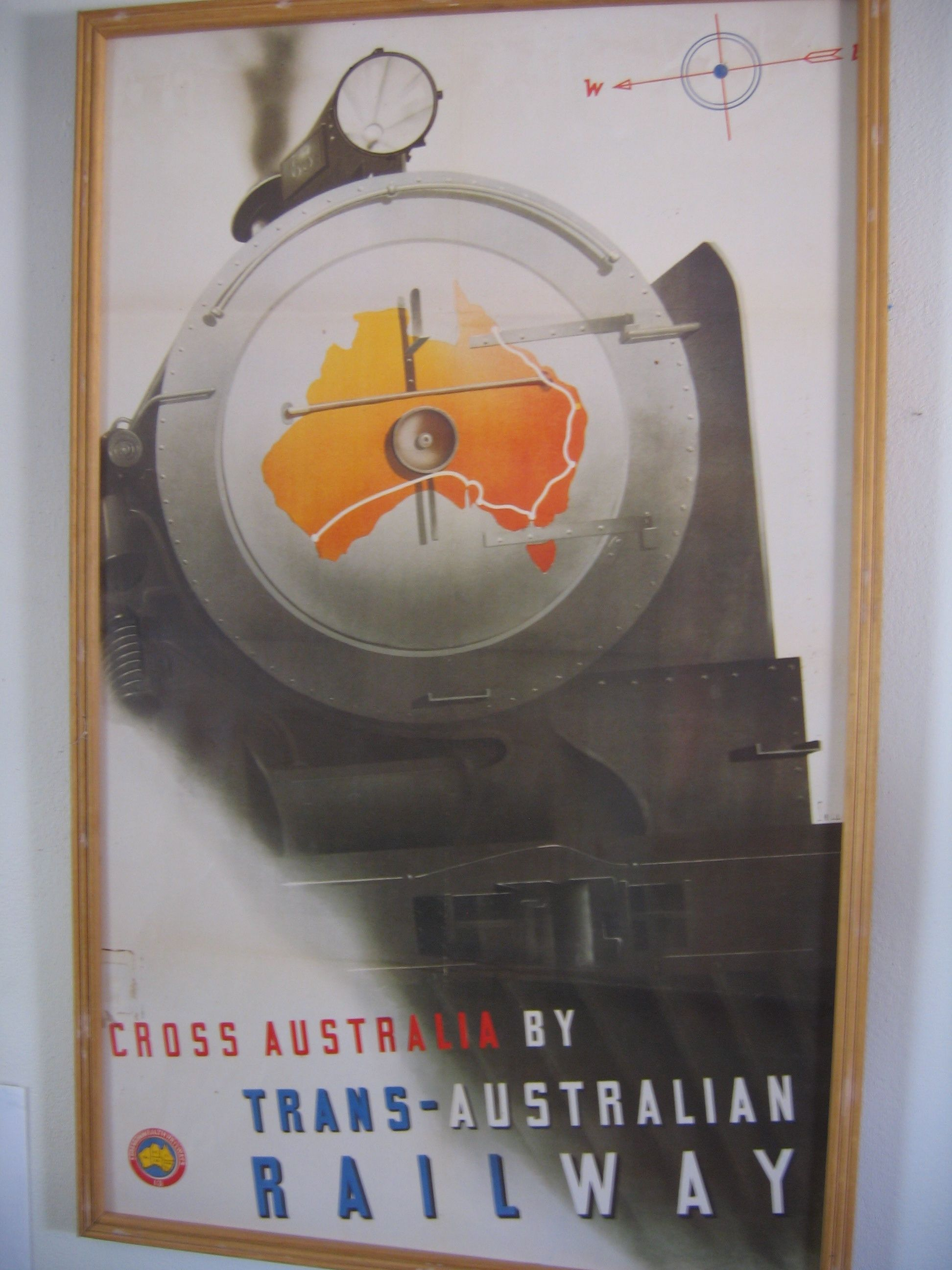 Advertising poster for Trans Australian train, Museum Alice Springs